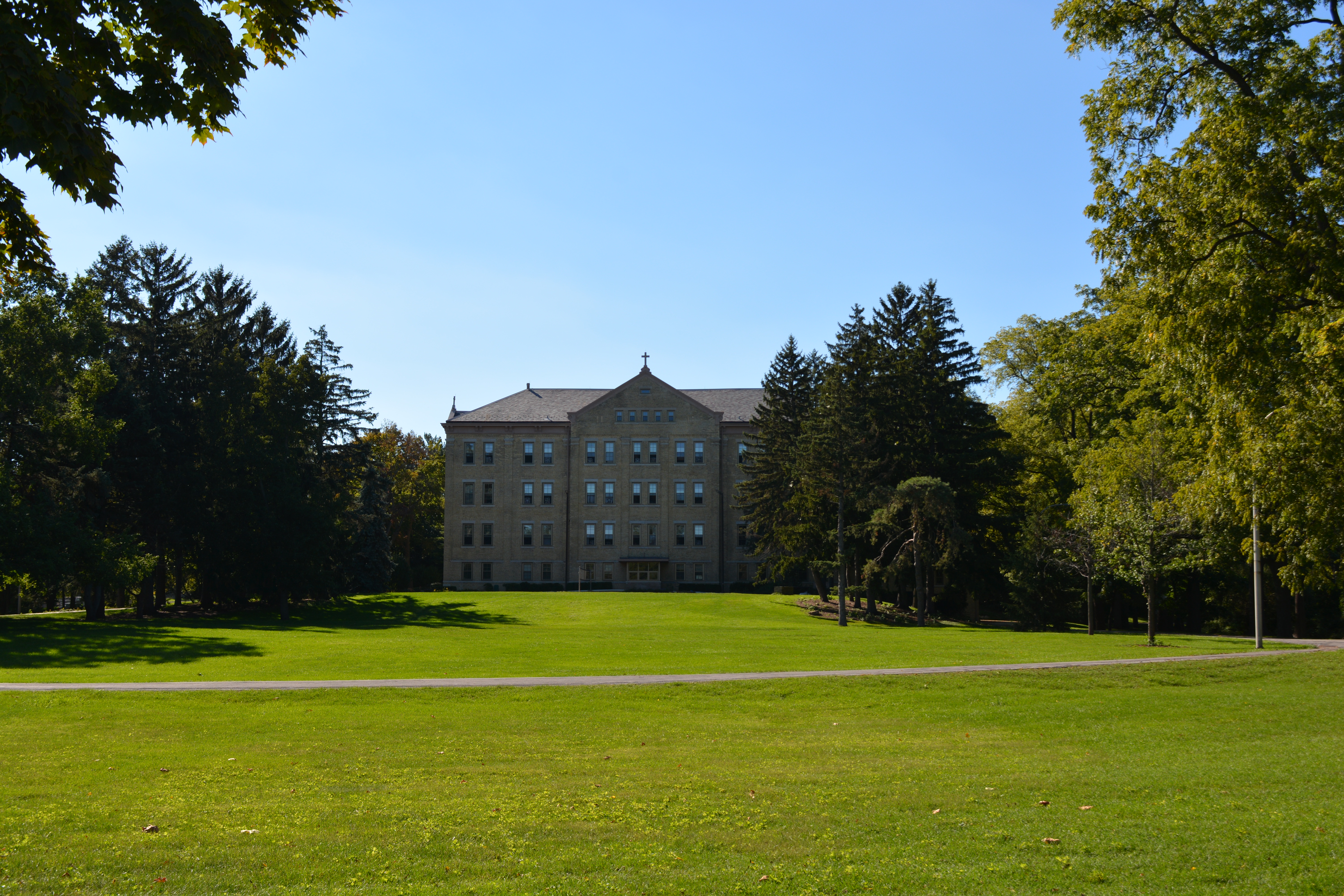 University of Notre Dame